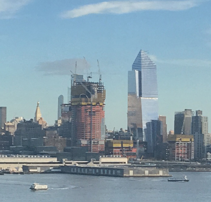 Hudson Yards, taken Feb. 2017 from Weehawken, NJ.